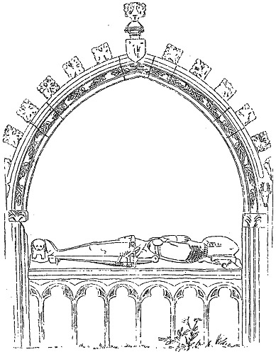 An line illustration of the effigy of Effigy of Sir Kenneth Mackenzie of Kintail located at Beauly Priory.